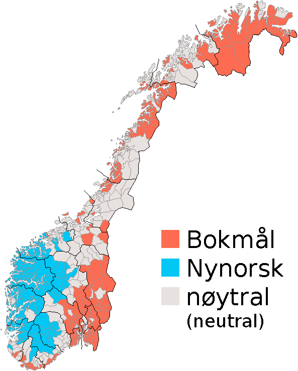 A map of the official language forms (målform) of Norwegian municipalities as of 2007.